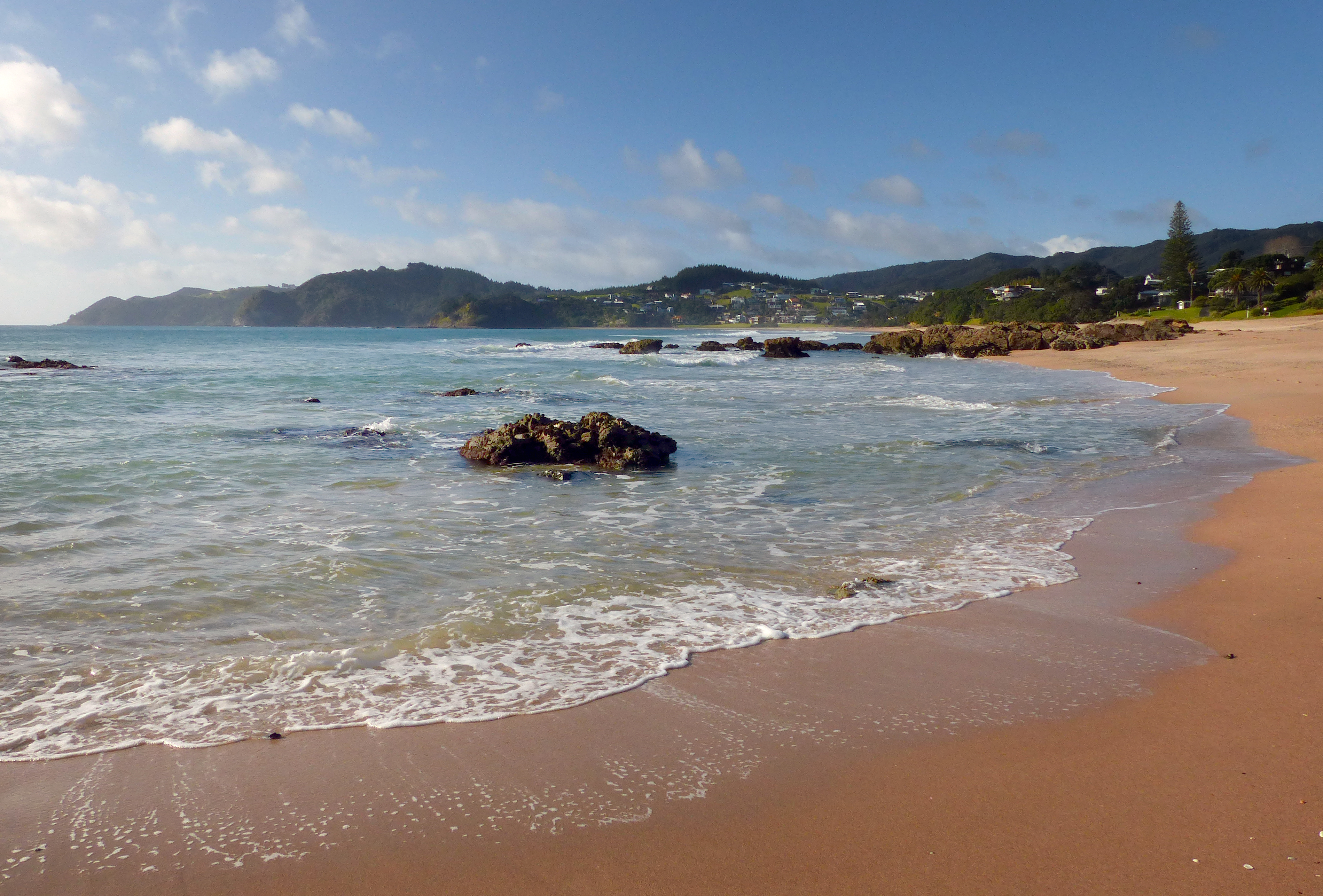 Langs Beach is a lovely surf beach, with lovely pohutukawa trees along the edge. There are toilets and a change shed at the southern end of beach, in the car parking area. Langs Beach is just a few minutes’ drive from our Waipu Cove holiday park, or around an hours’ walk.